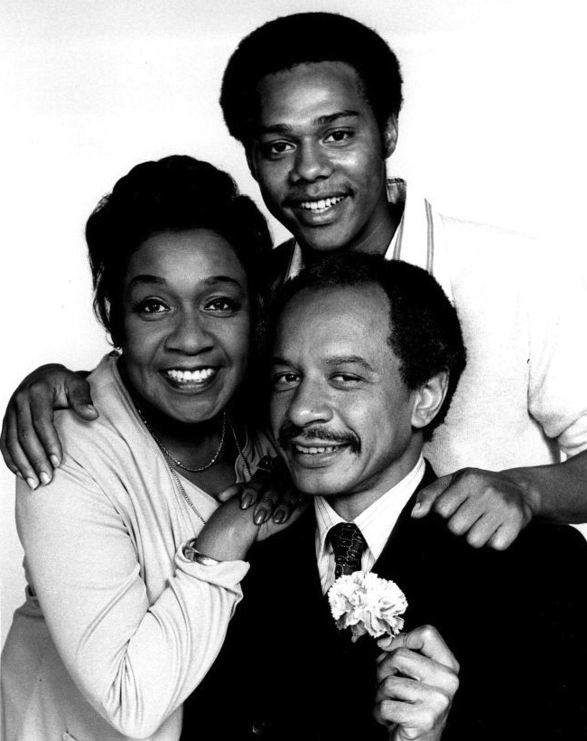 Publicity photo of American actors Isabel Sanford, Sherman Hemsley and Mike Evans promoting the upcoming January 18, 1975 premiere of the television series The Jeffersons.